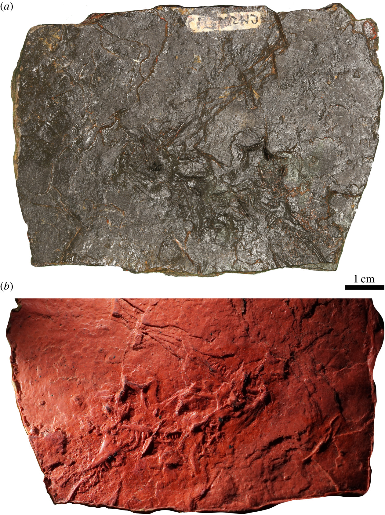 Carbonodraco lundi gen. et sp. nov., (a) the holotype specimen (CM 23055) (Amy C. Henrici photo) and (b) latex peel of the holotype specimen.